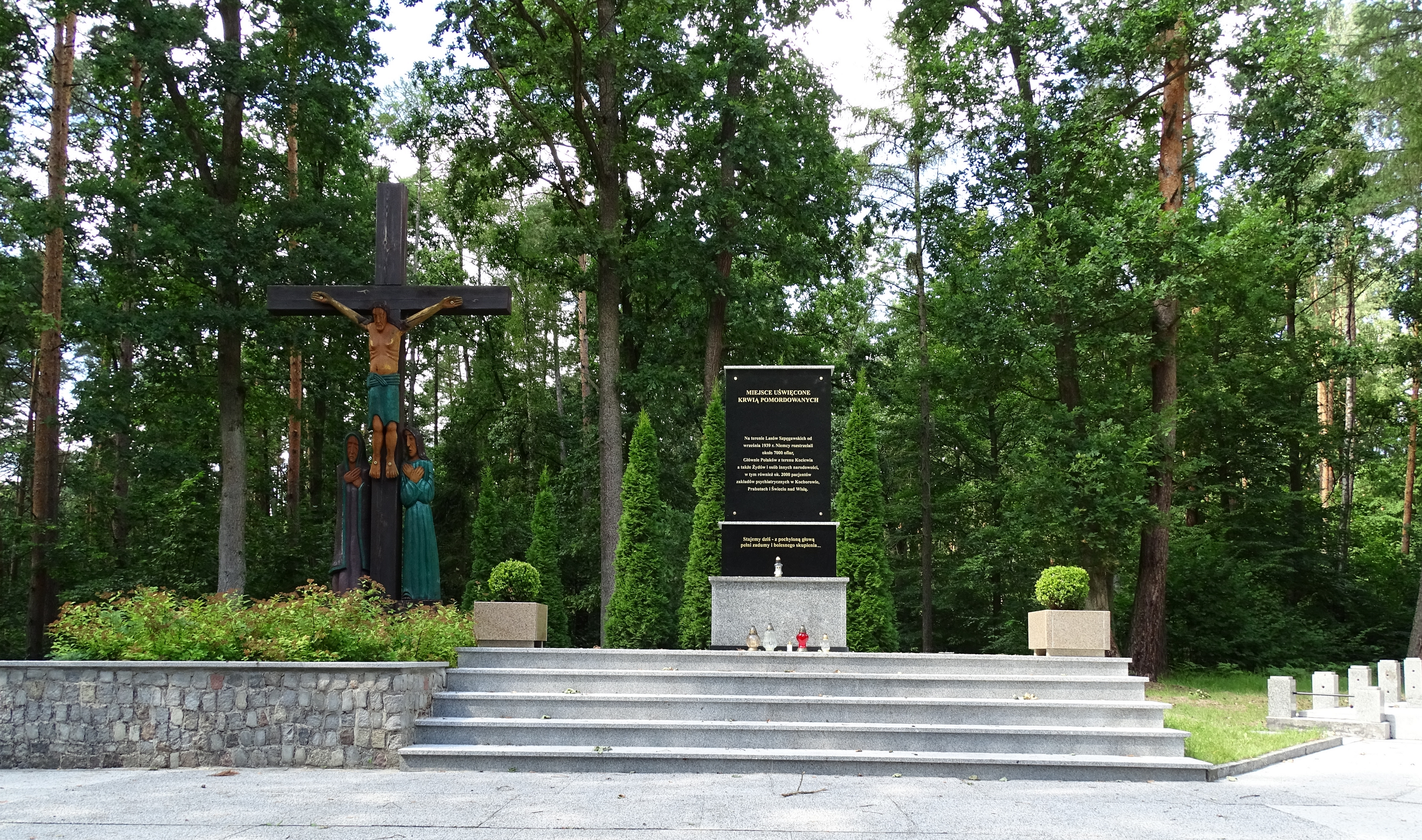 Szpęgawsk, Gmina Starogard Gdański, within Starogard County, Pomeranian Voivodeship, in northern Poland. Monument at the place of execution around 5000-7000 Polish civilians by the Germans between September 1939 and January 1941.